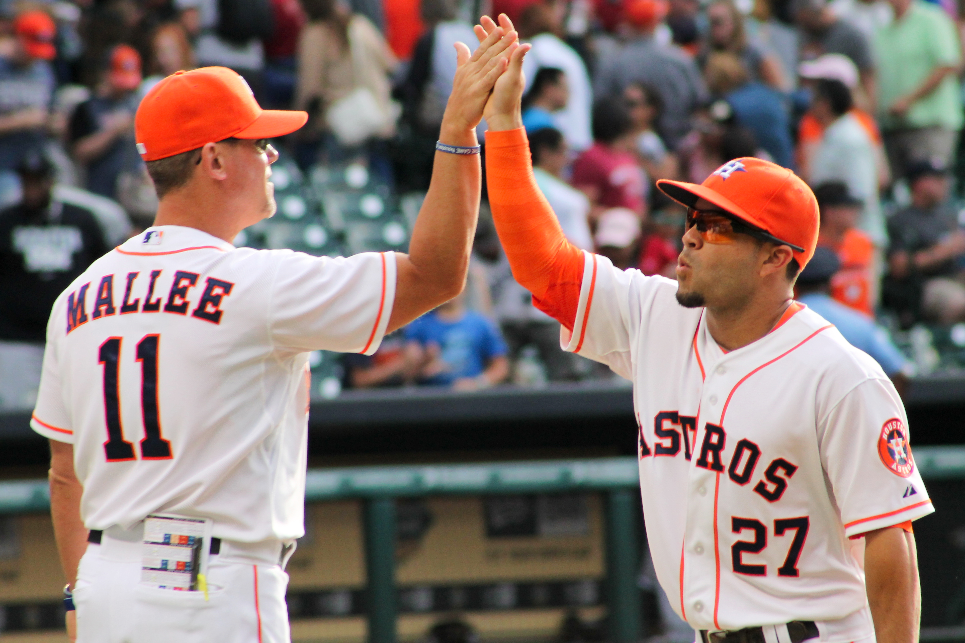 Houston Astros coach John Mallee and player José Altuve after a game in May 2014.